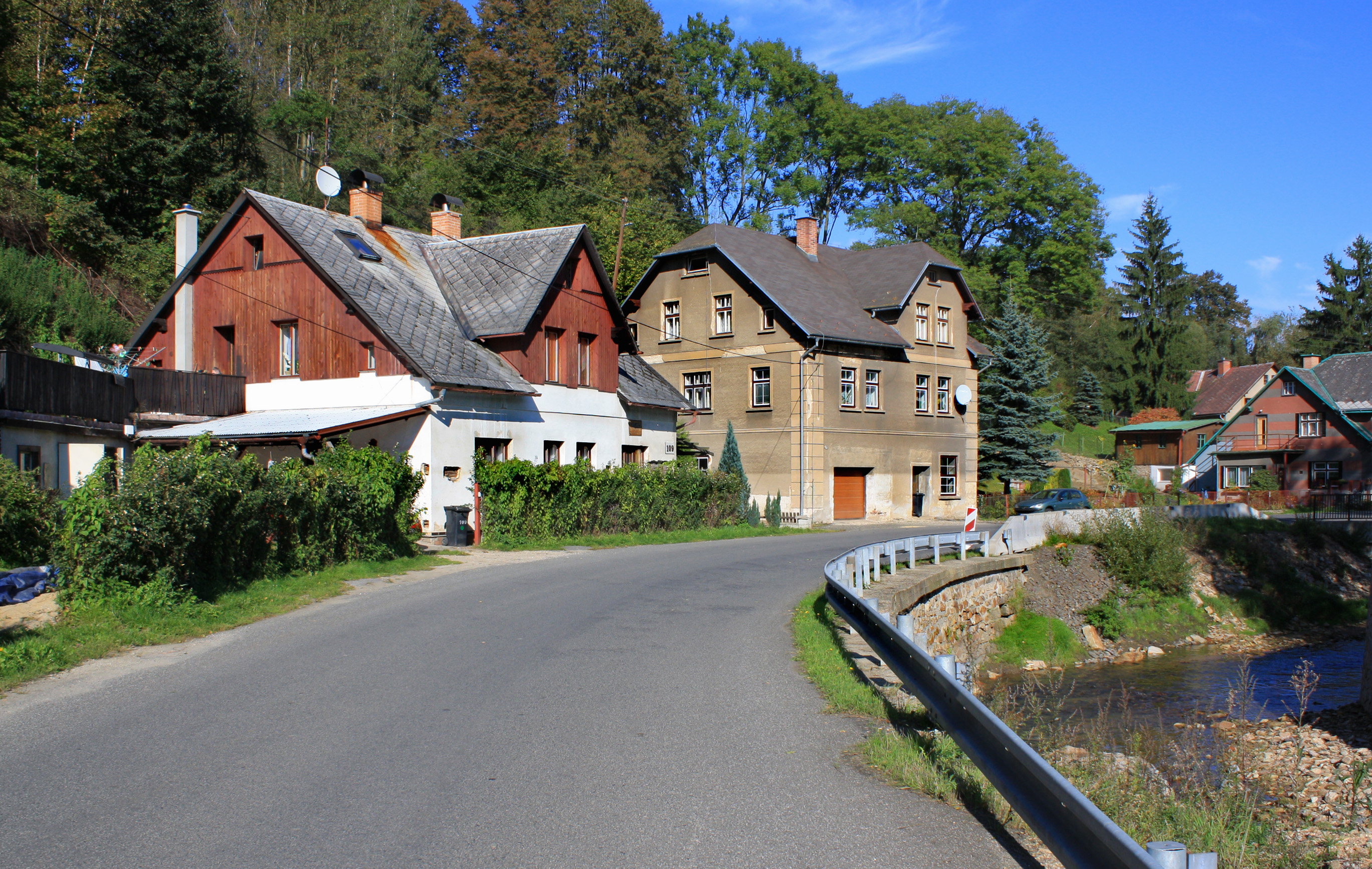 Road No 592 in the west part of Nová Ves, Czech Republic